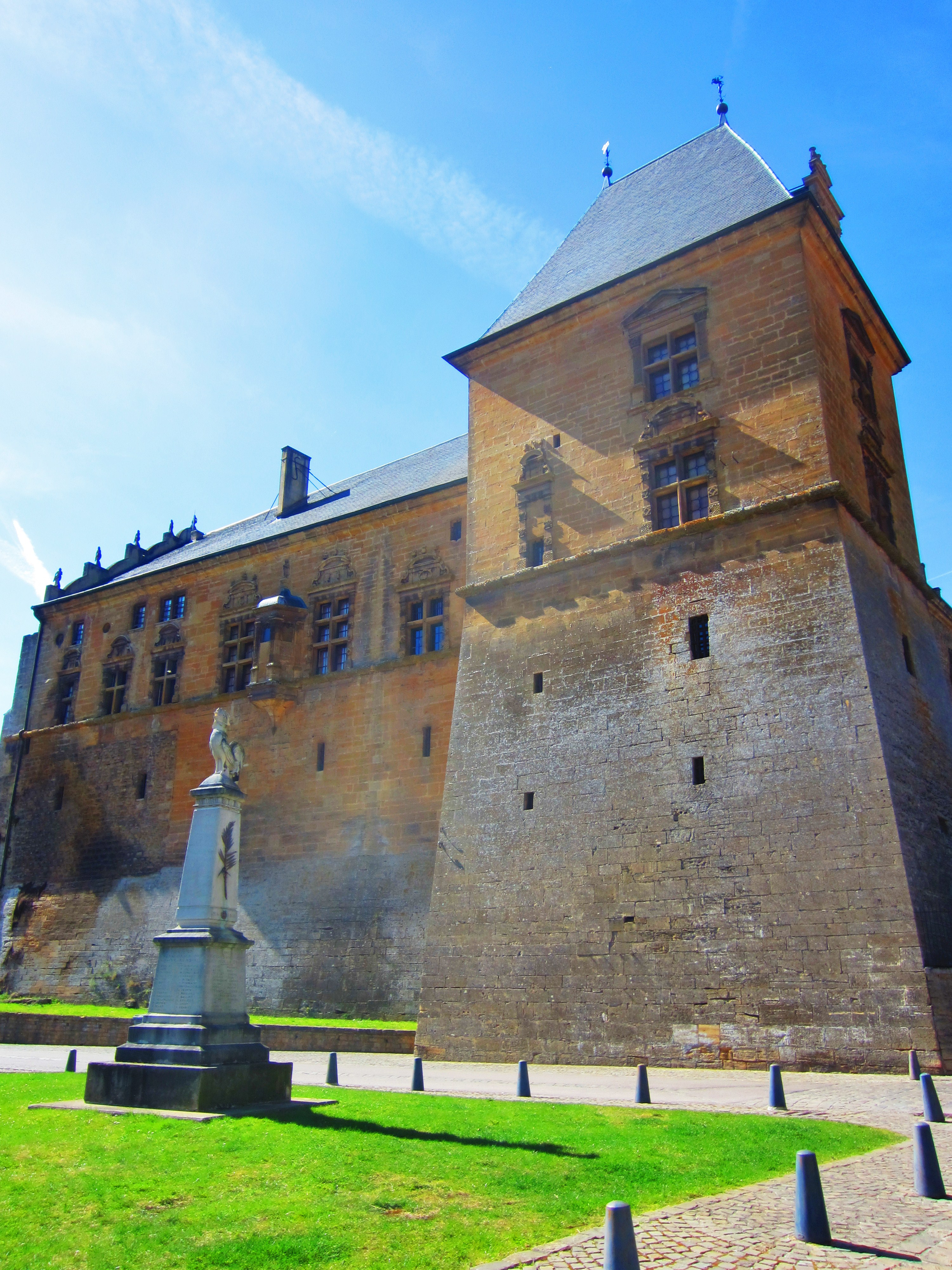 Cons-la-Grandville castle